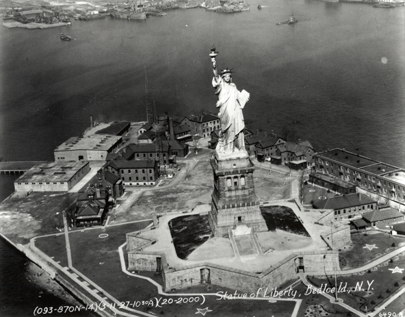 Statue of Liberty and part of Bedloe's (Liberty) Island, 1927